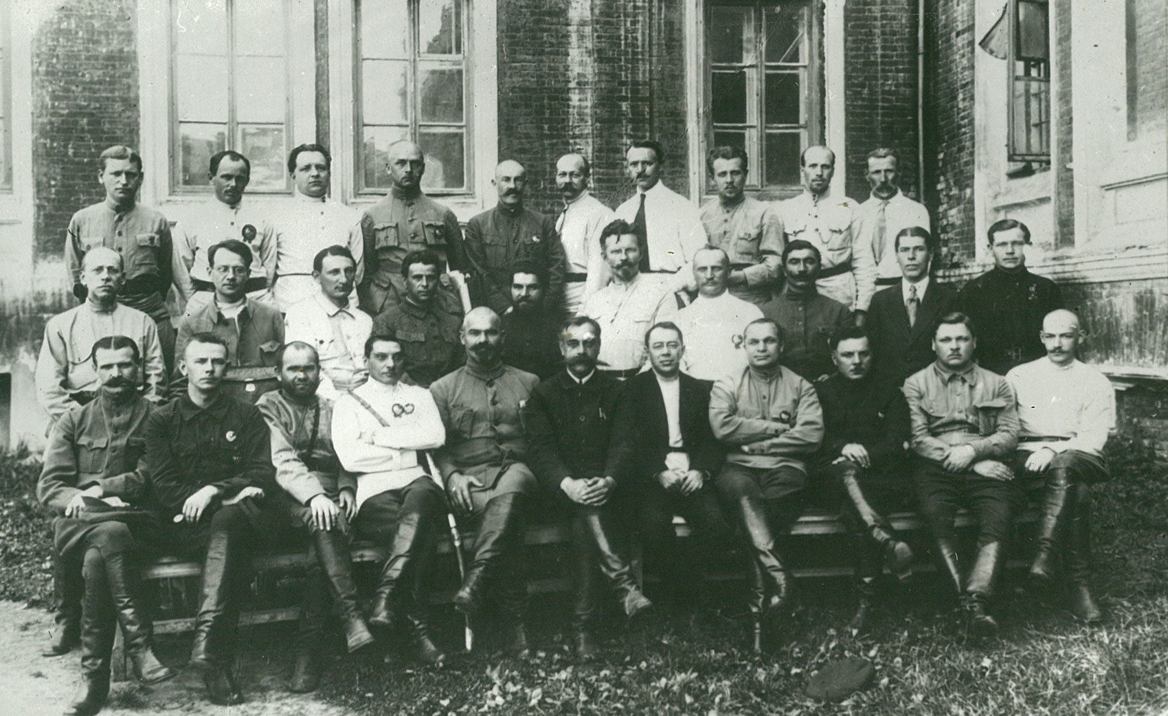 Constellation delegates congress of the commanders. 1921